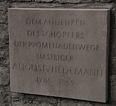 Memory Plate of August von Hedemann Steigerwald in Erfurt 1994